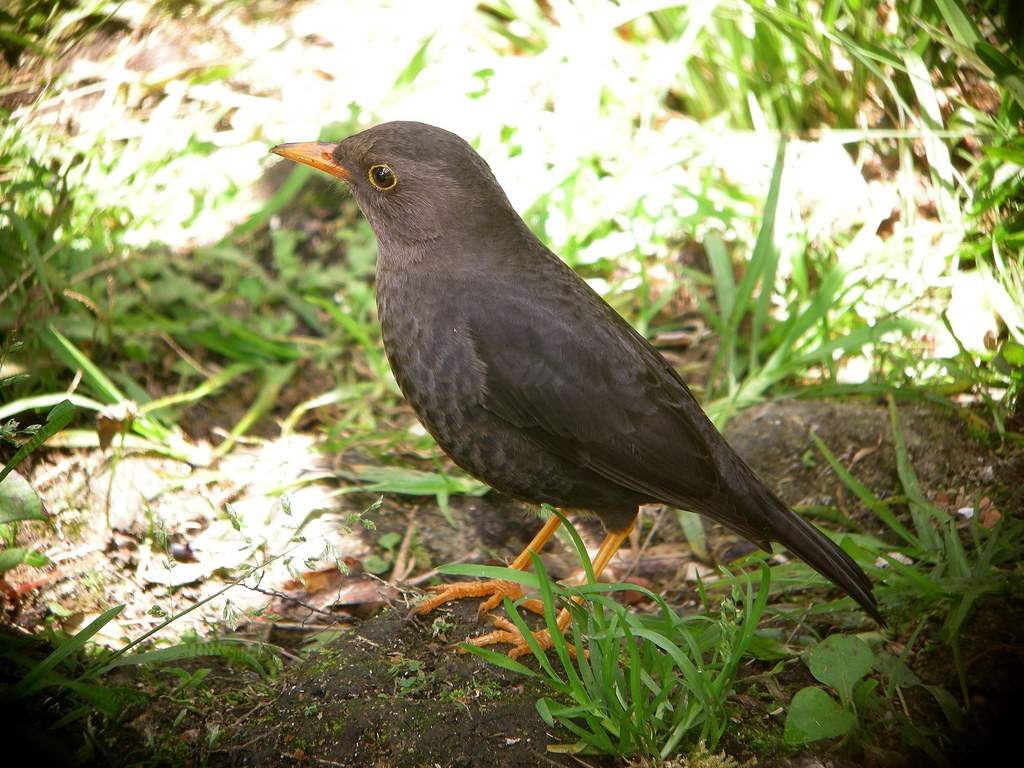 Island thrush Turdus poliocephalus carbonarius, adult male Kumul Lodge (Mt. Hagen) Papua New Guinea